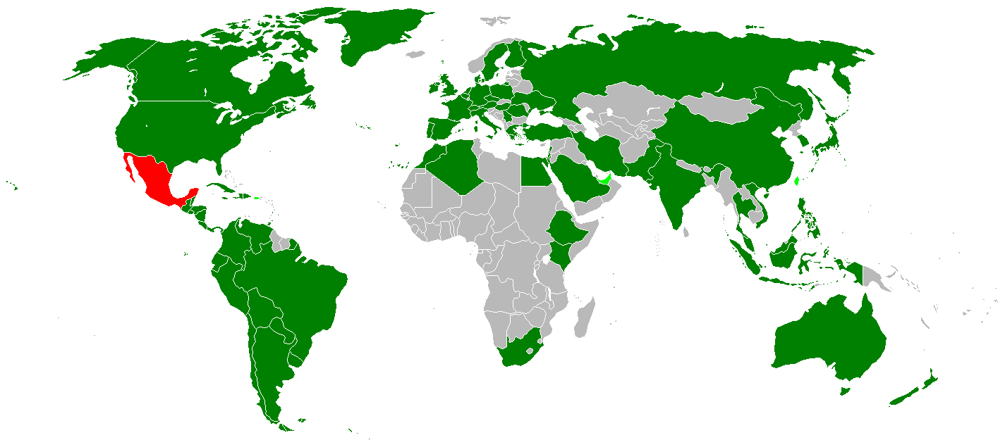 Map of diplomatic missions of Mexico